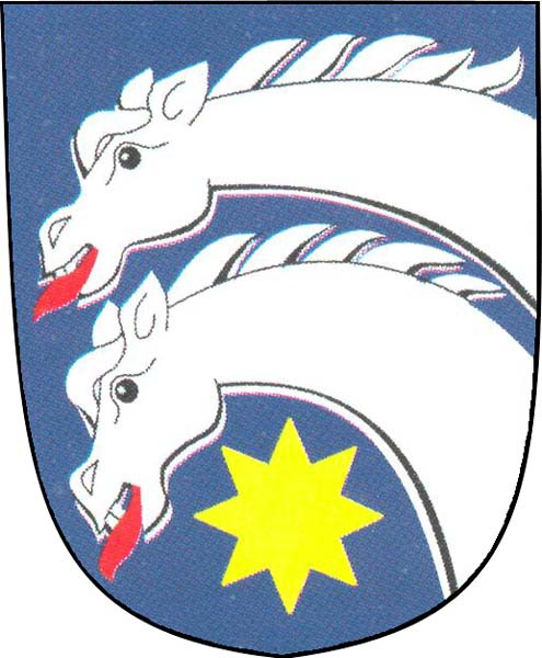 Municipal coat of arms of Nezamyslice village, Prostějov District, Czech Republic.